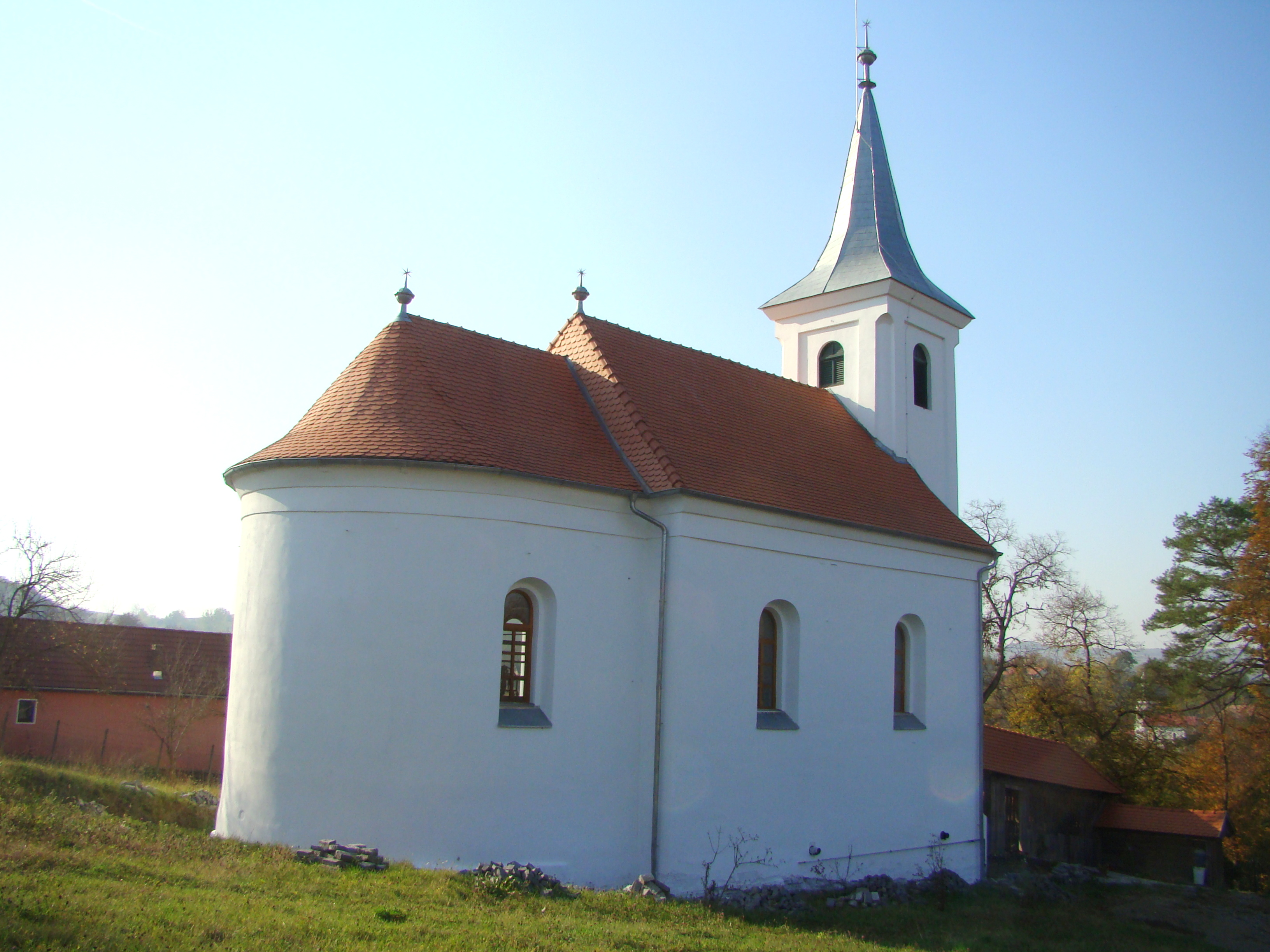 Reformed church in Berghia, Mureș County, Romania